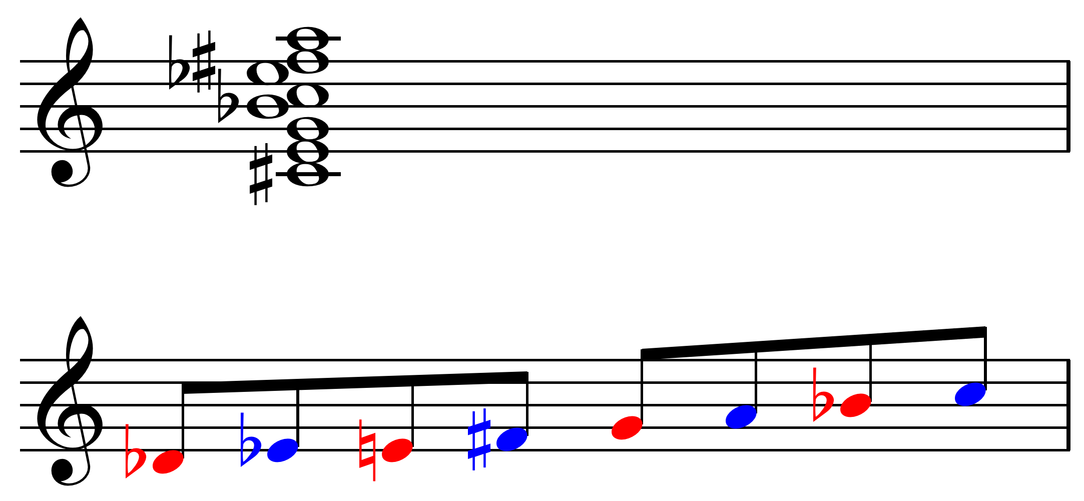 Alpha chord.